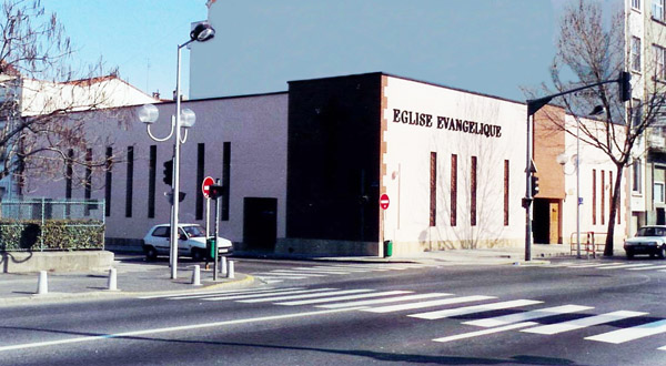 Evangelical church in Perpignan